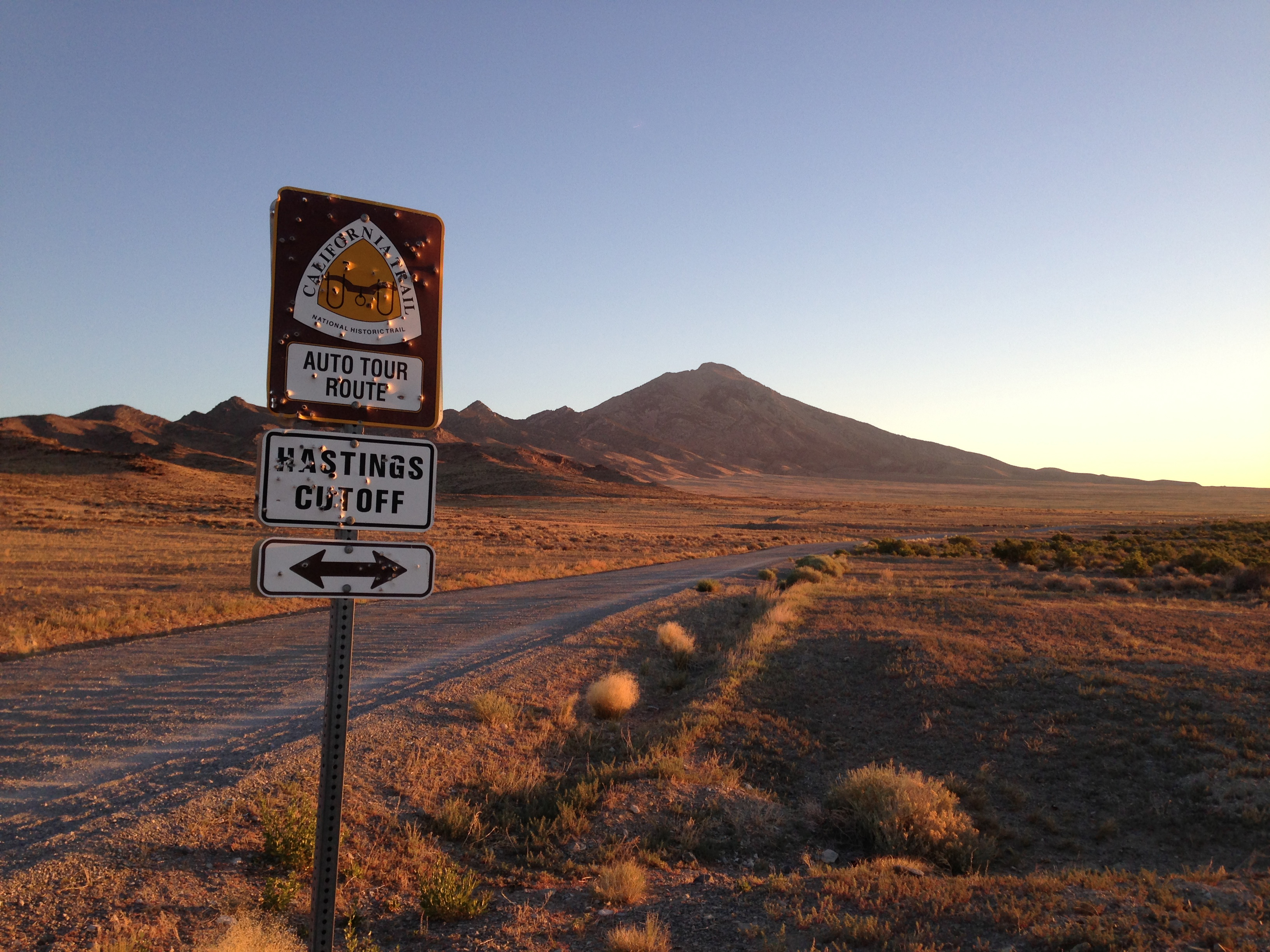 Sign for the California Trail along Leppy Pass Road near Pilot Peak, Nevada